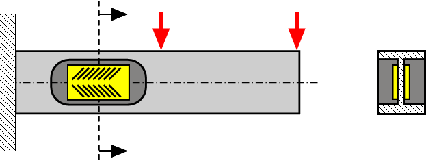 load cell spring element, type shear beam